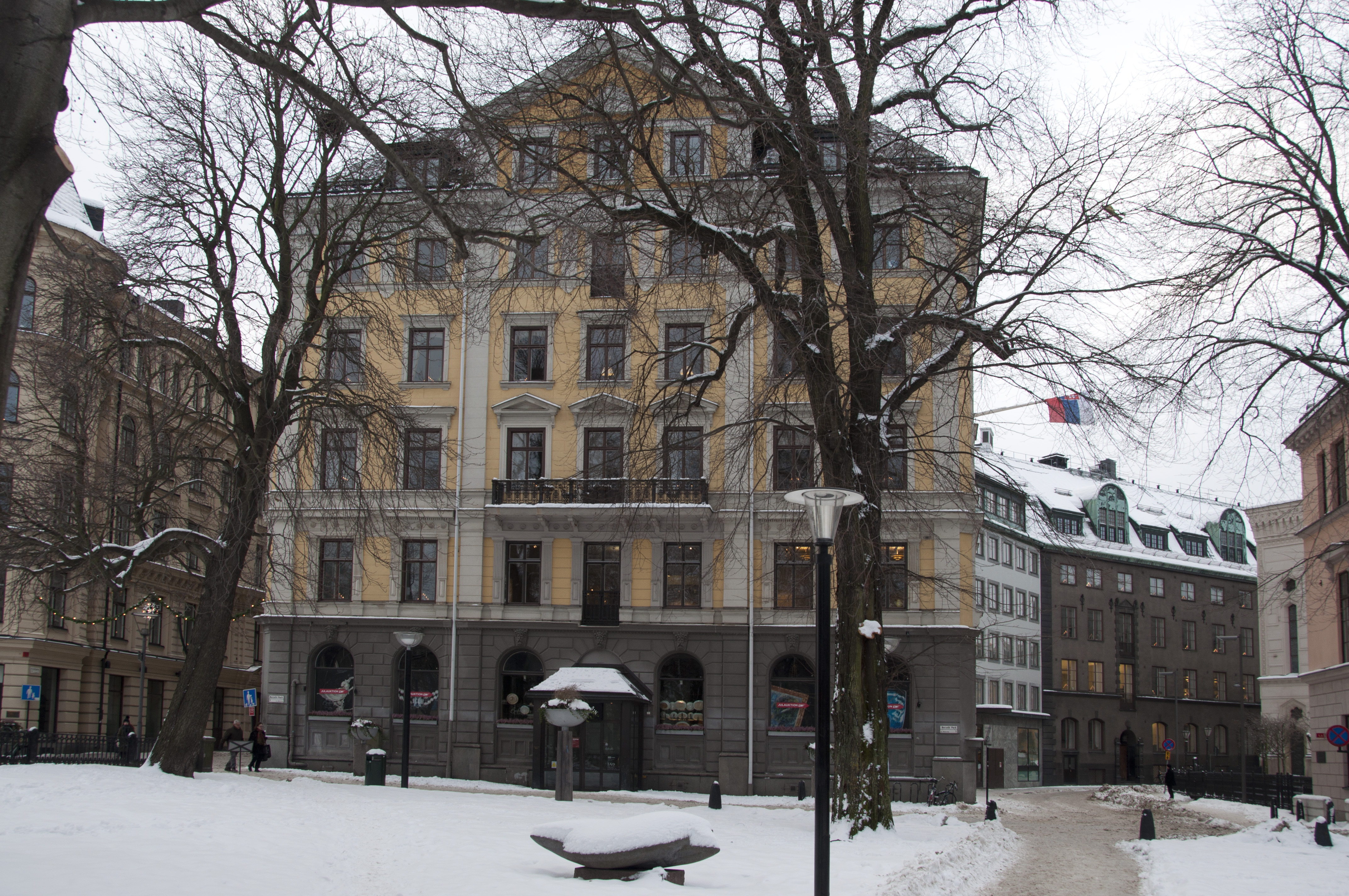 Slovakian Embassy